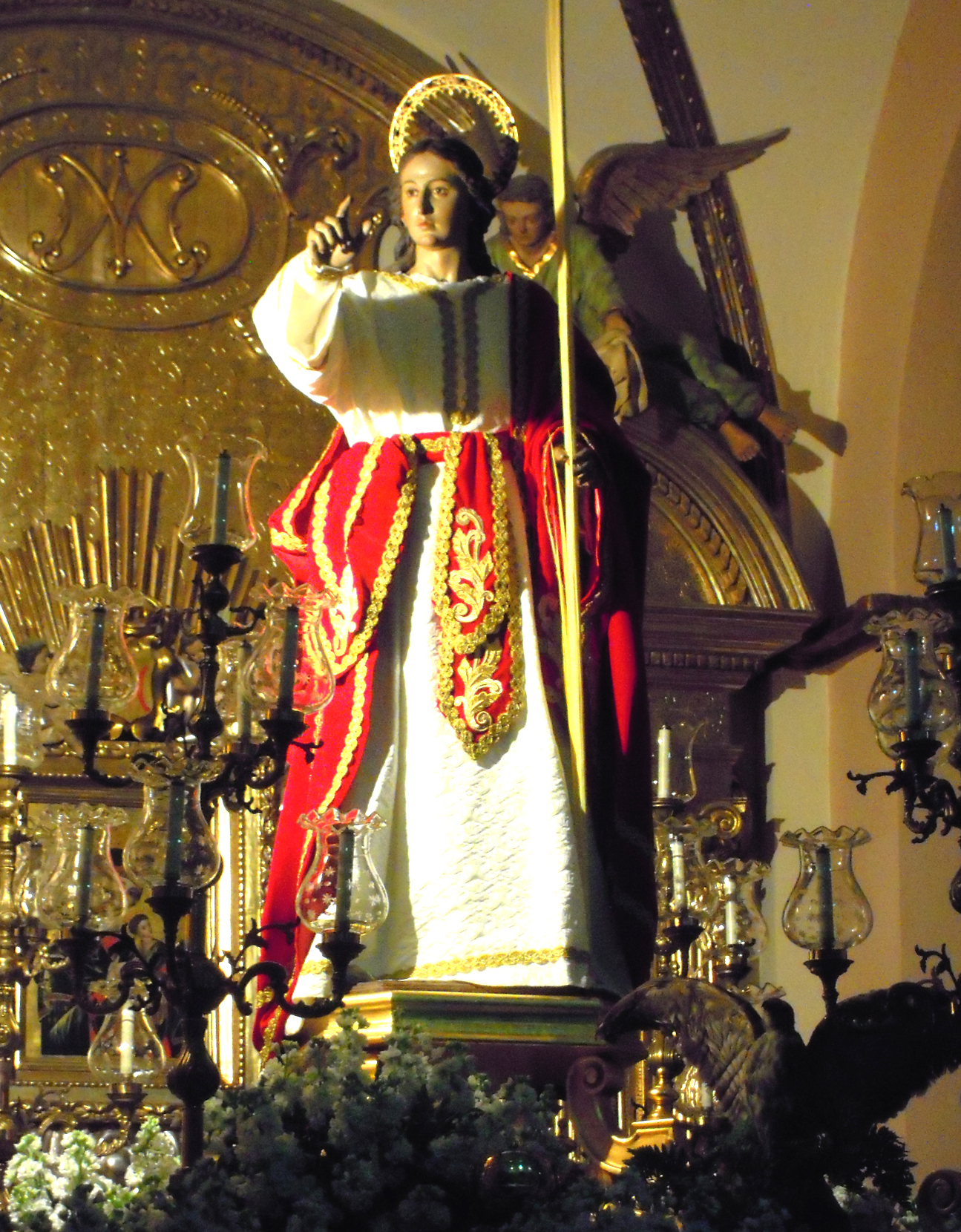 John the Evangelist, Easter in Beniajan